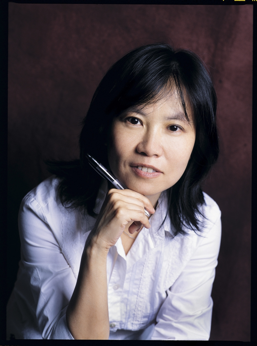 Photo of Suanna Cheung